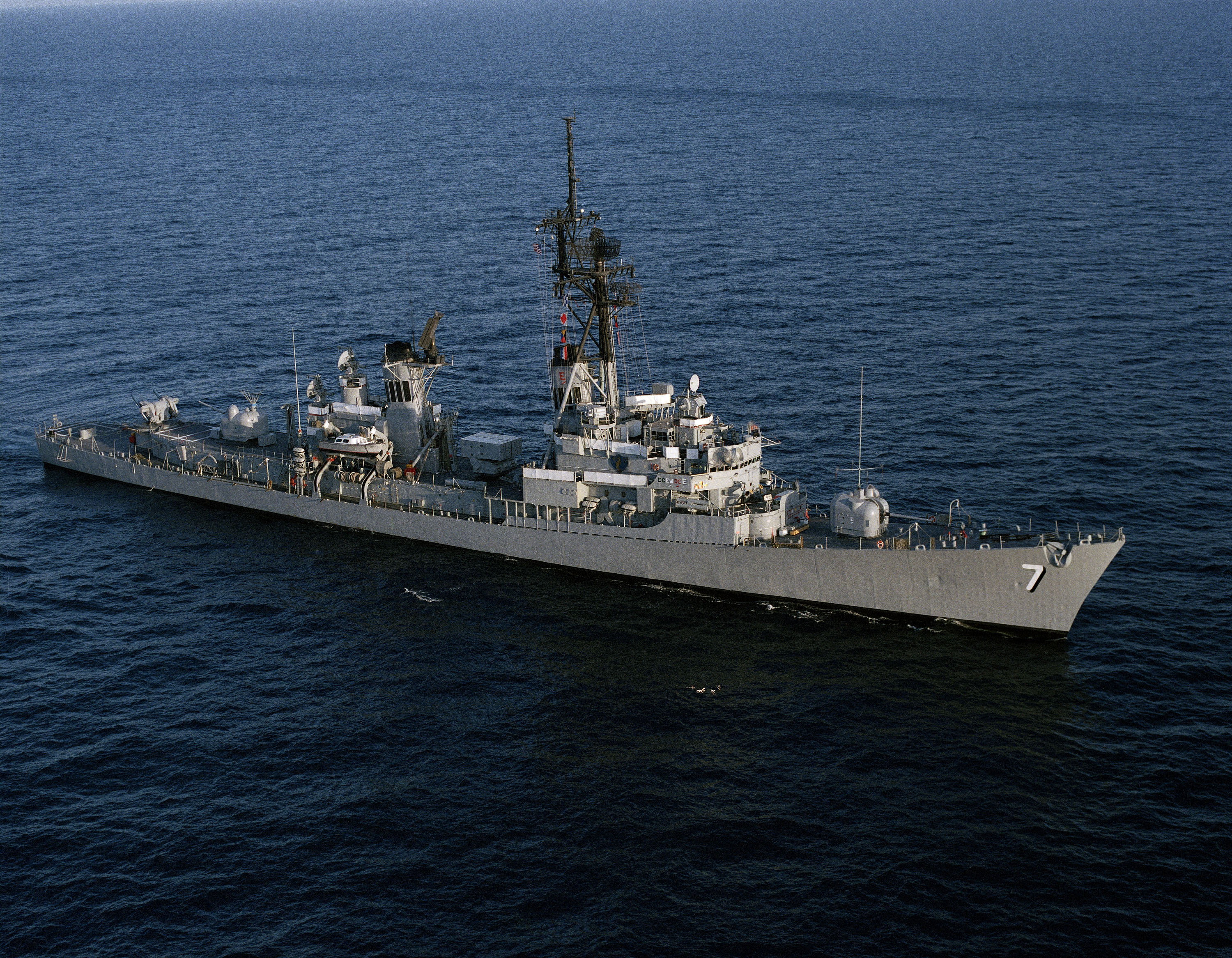 The U.S. Navy guided missile destroyer USS Henry B. Wilson (DDG-7) underway off the coast of Southern California (USA), on 21 April 1989.